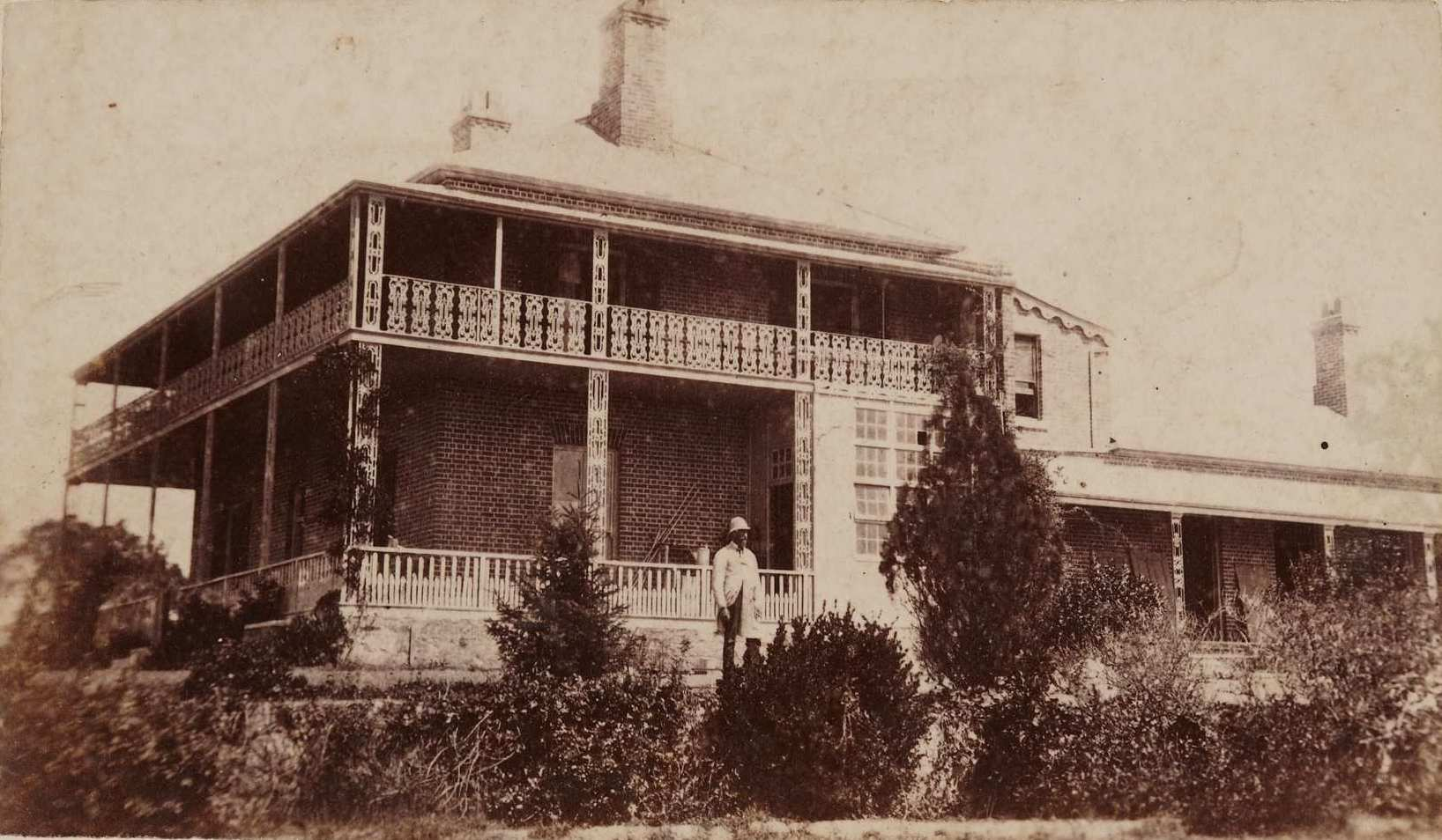 South Hill, Goulburn, NSW, around 1875. The house was owned by Charles Fyshe Roberts.